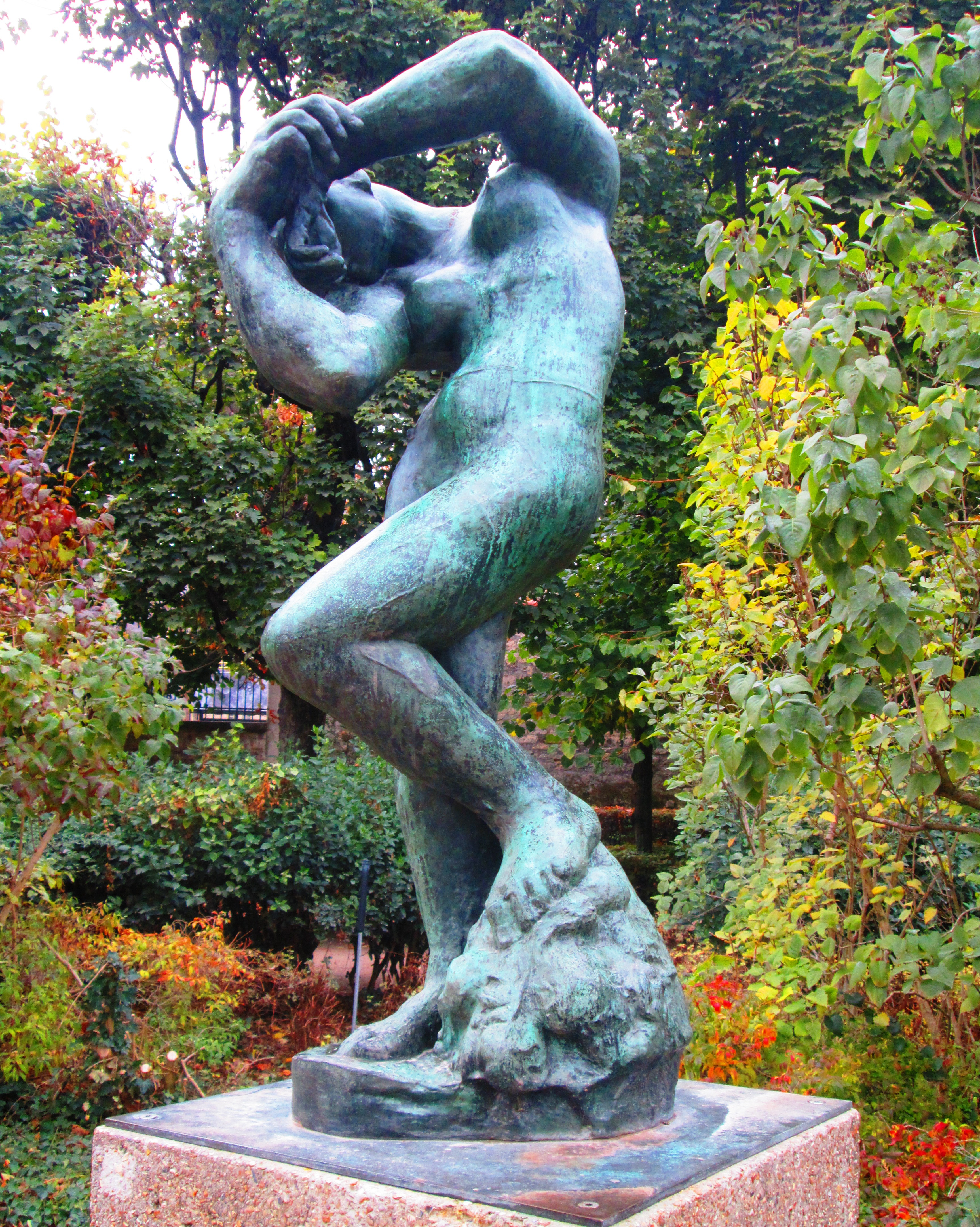 Méditation, dite voix intérieure, avec bras ("Meditation, or the Inner Voice, with Arms") began as a small figure of a condemned woman for Auguste Rodin's large work La porte de l'Enfer ("The Gates of Hell"), and was subsequently used in the monument honoring Victor Hugo. It was later enlarged into a separate sculpture. This version was cast from a model made after 1900. (Source: Musée Rodin)